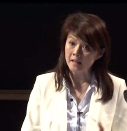 Rpse Amal screen shot 2014